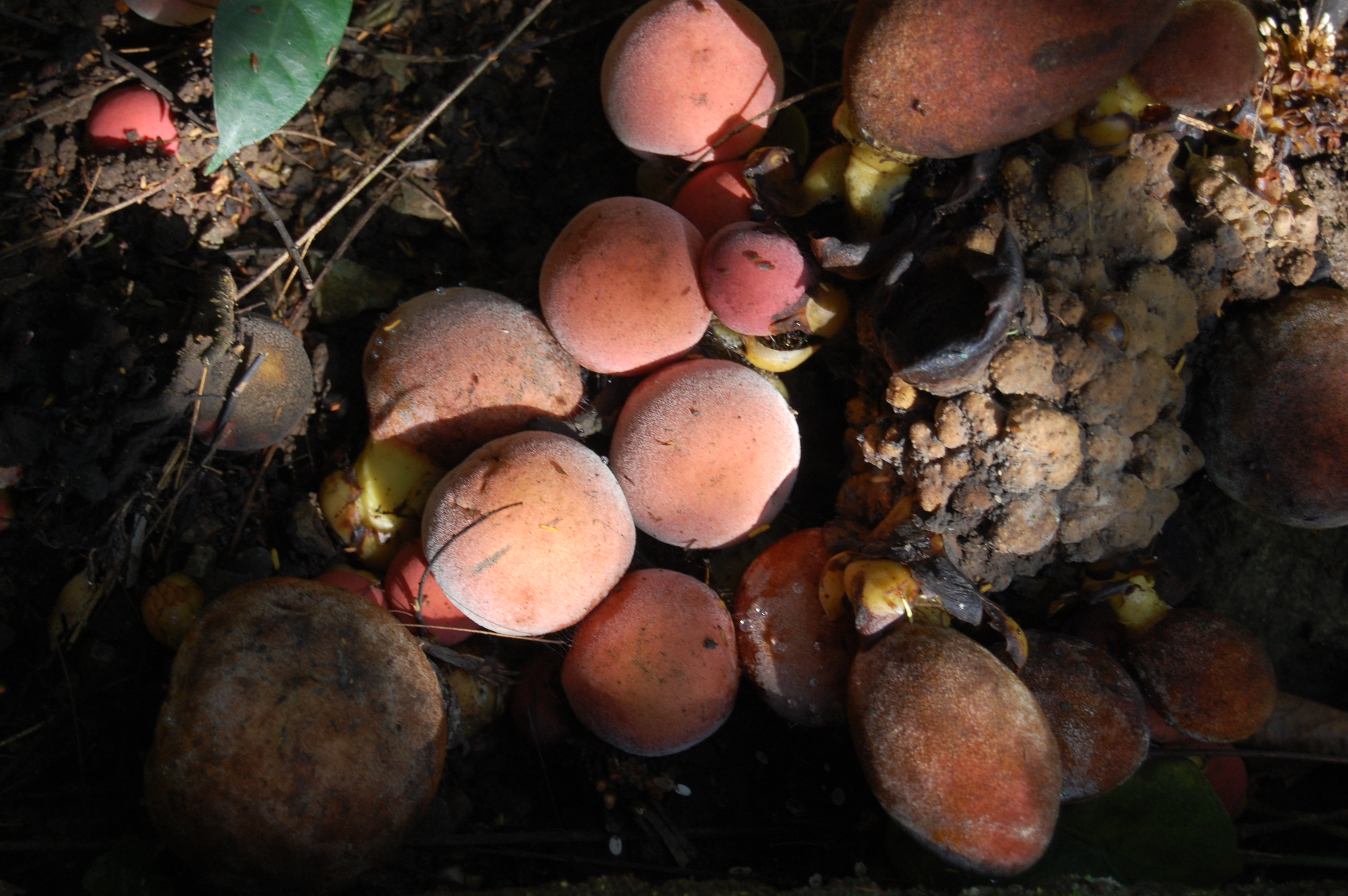 Balanophora indica (Syn. Balanophora fungosa subsp. indica) in Hup Patad cave